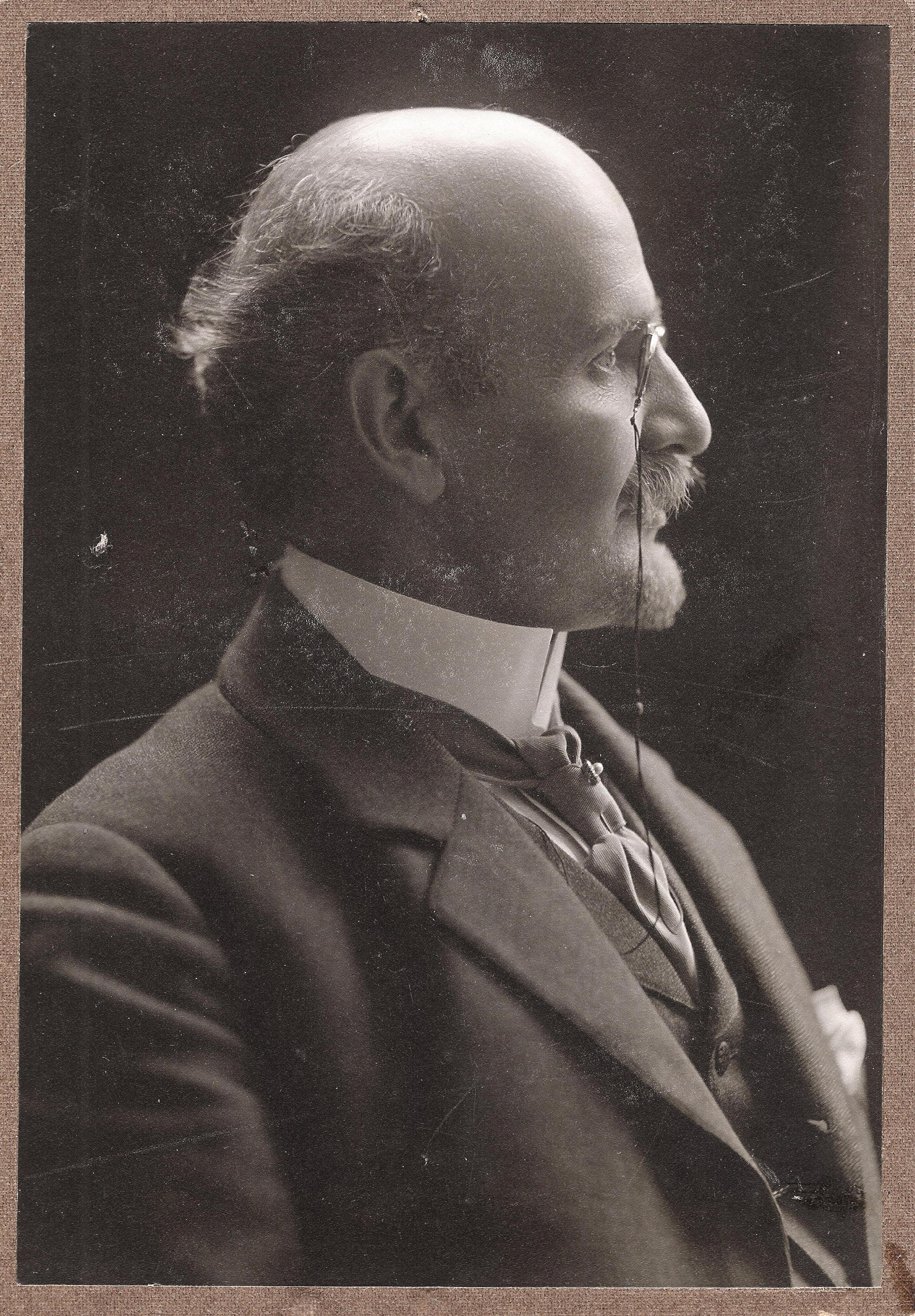 Alexandru Obregia (1867-1937)